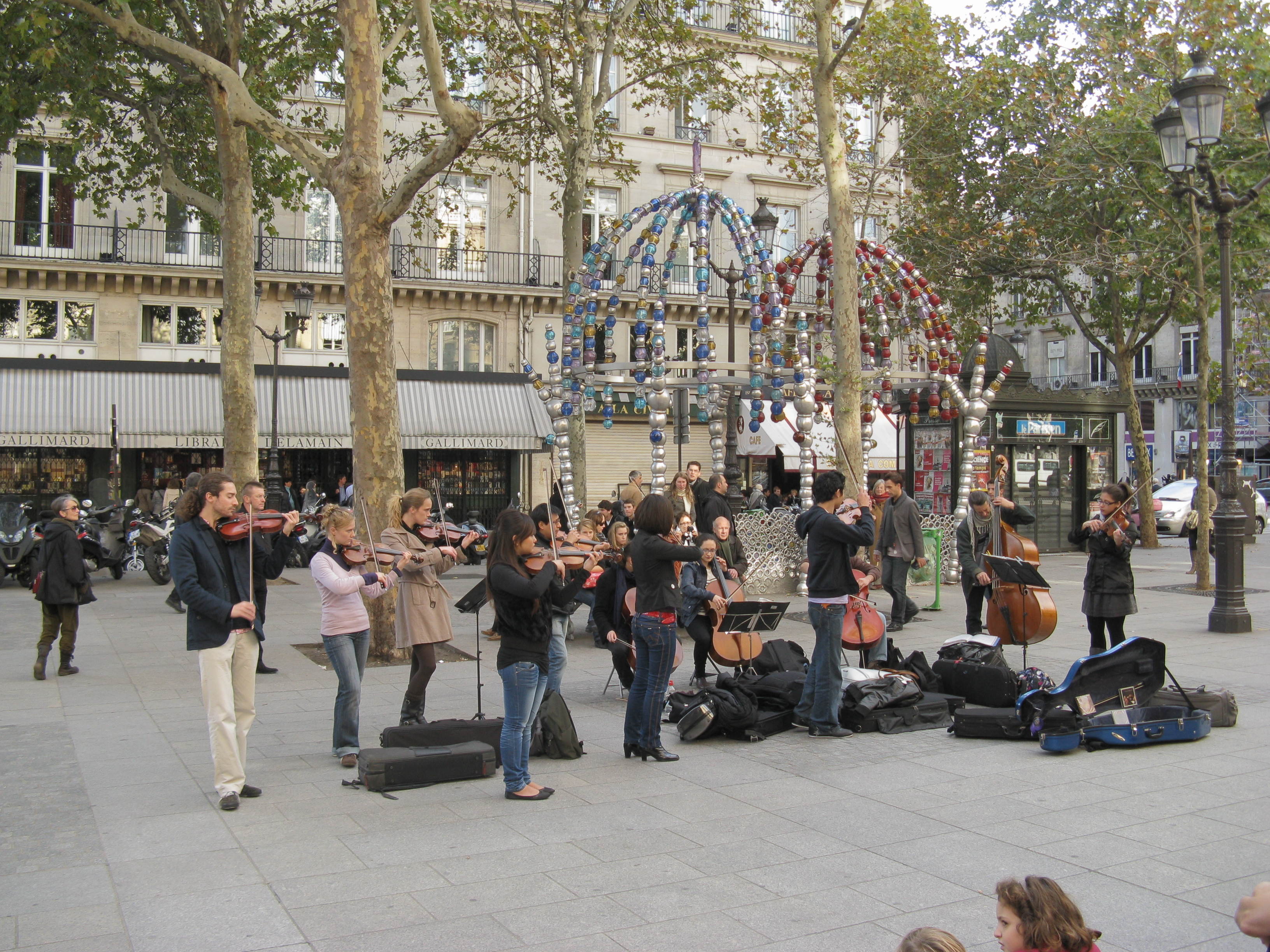 Street musicians by the entrance to the subway station Palais Royal - Musée du Louvre in the Place Colette, Paris, France.